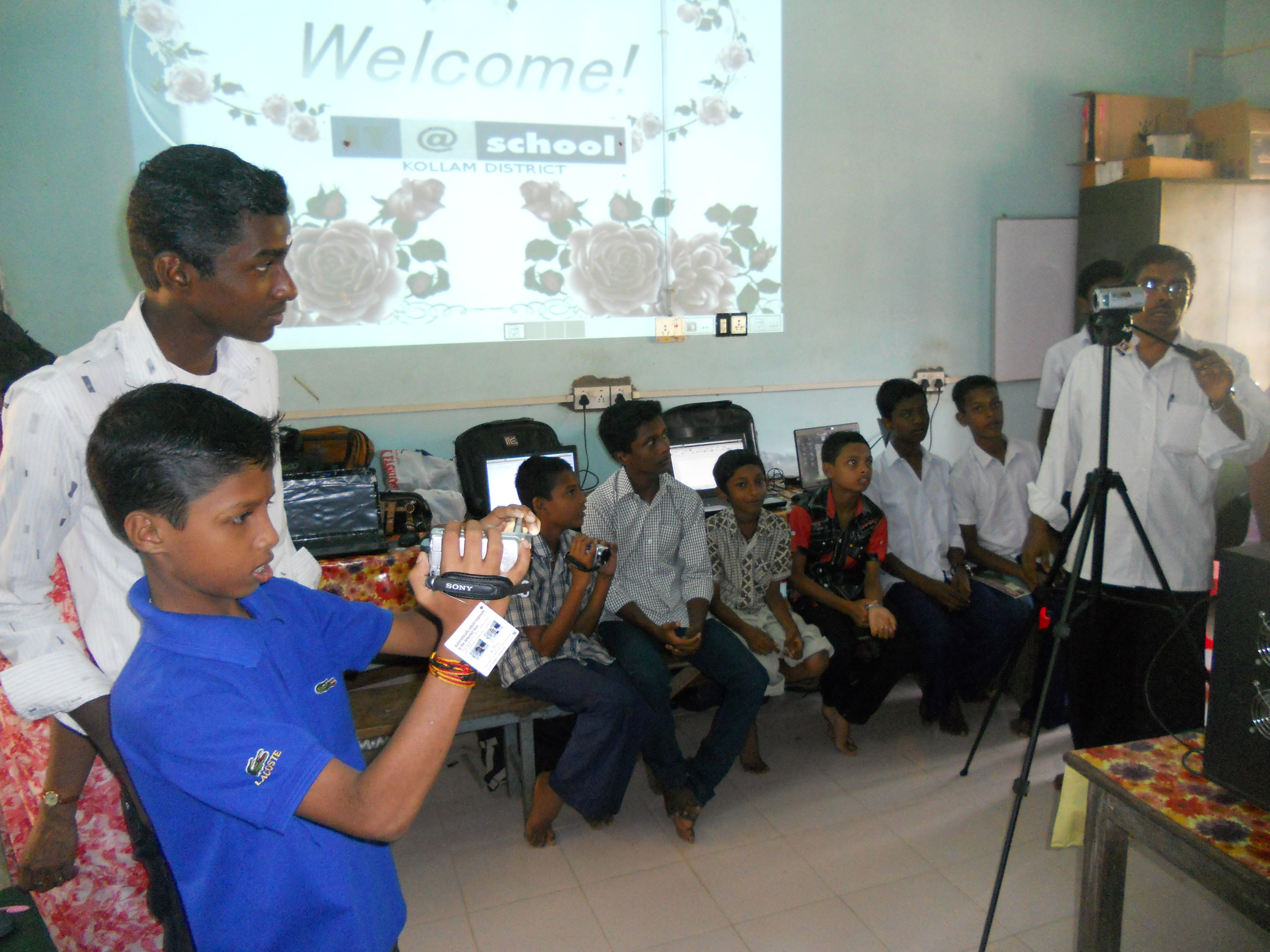 This media file is uploaded with India loves Wikipedia event. camera handling training for Student IT coordinators ,by IT @ School project